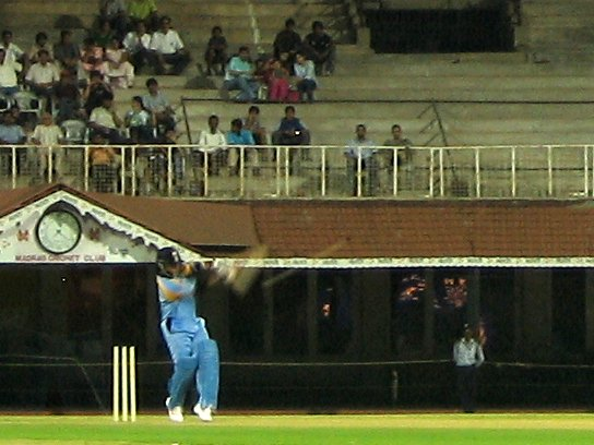 Indian cricketer, Sachin Tendulkar, hitting a six off Sreesanth. (NKP Salve Challenger Trophy, India Blue v India Red at Chennai, Oct 1, 2006)